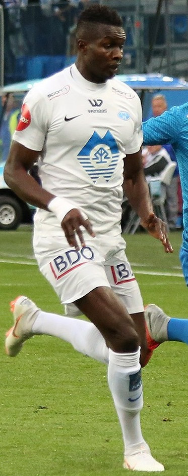 Soccer player Babacar Sarr